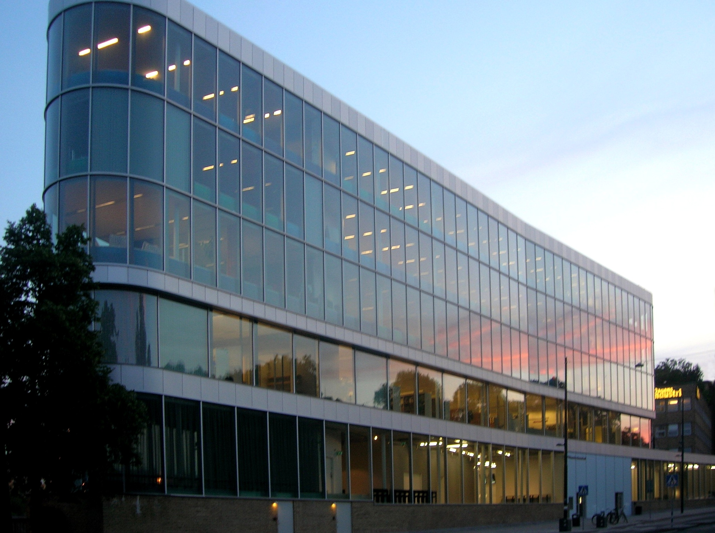 Bonniers Konsthall as seen from Torsgatan, Stockholm, Sweden